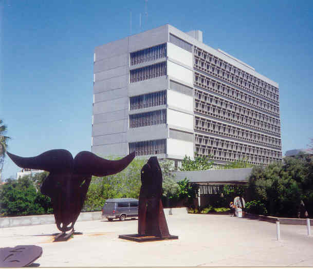 Tel Aviv District Court House